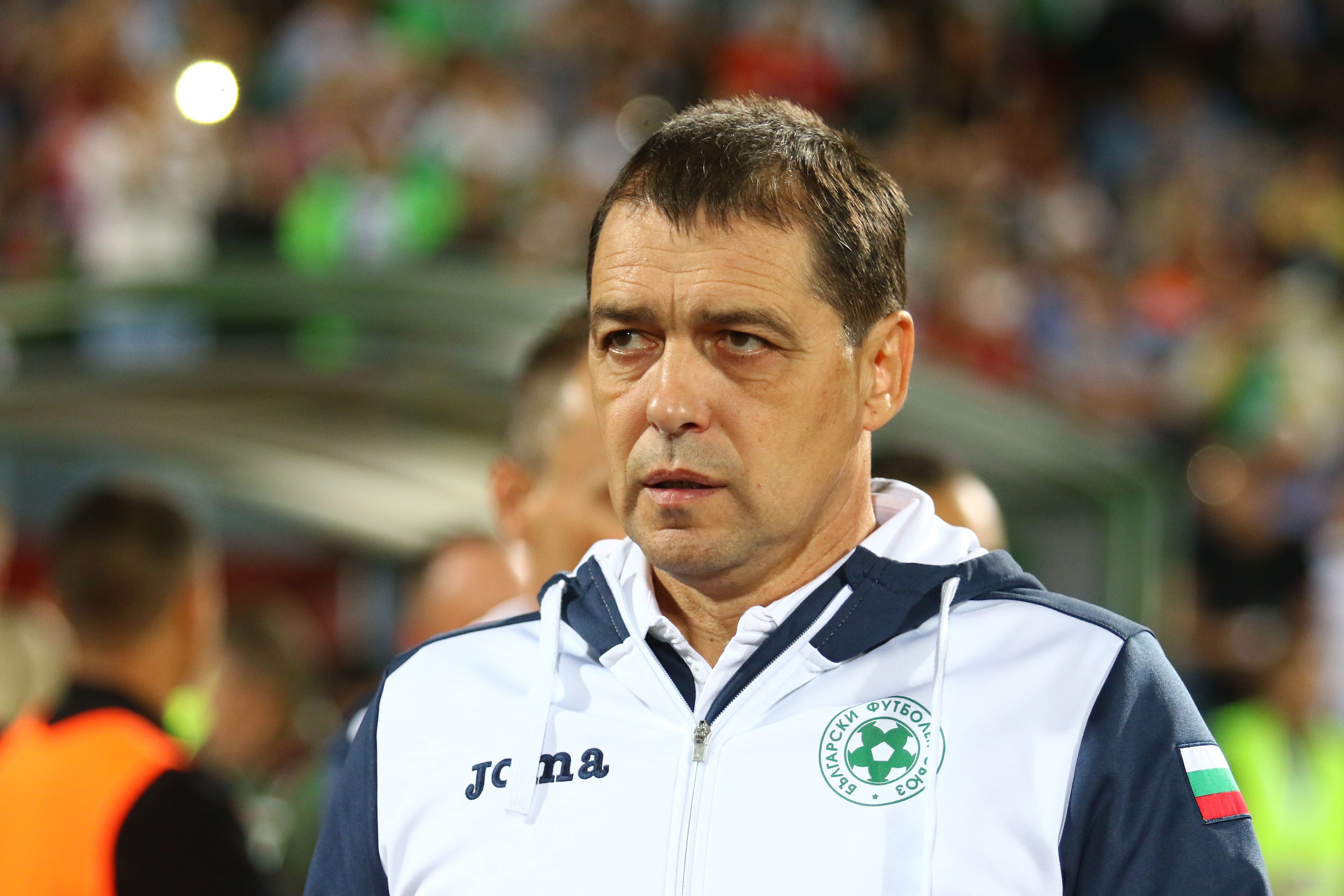 Petar Hubchev - former Bulgarian footballer, defender, coach, coach of the National Team of Bulgaria.